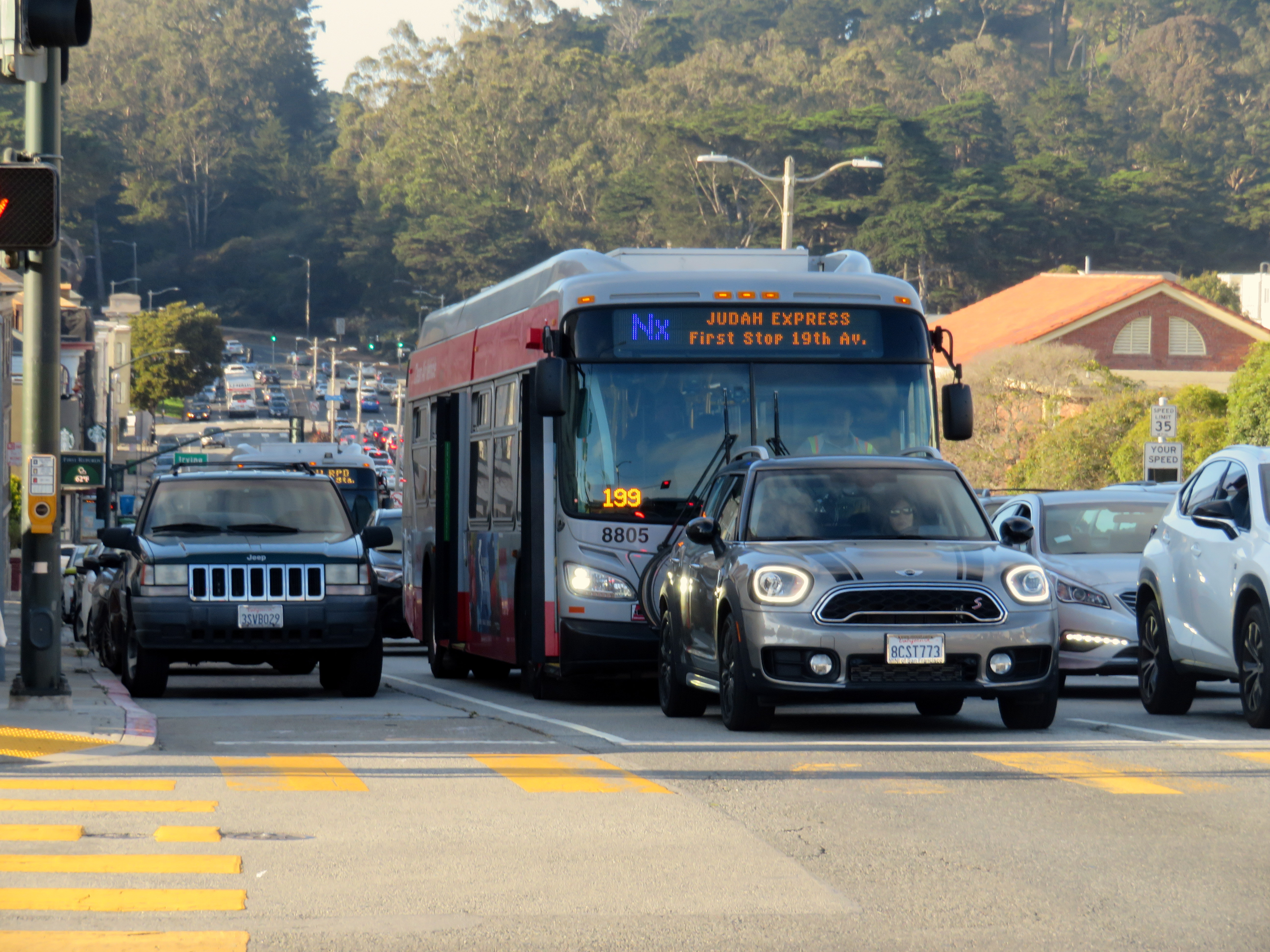 Muni route Nx bus with a blue rollsign on 19th Avenue at Judah Street in September 2018